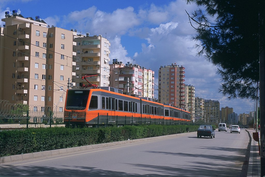 A metro goes on Huzurevi Station to Anadolu Lisesi Station.